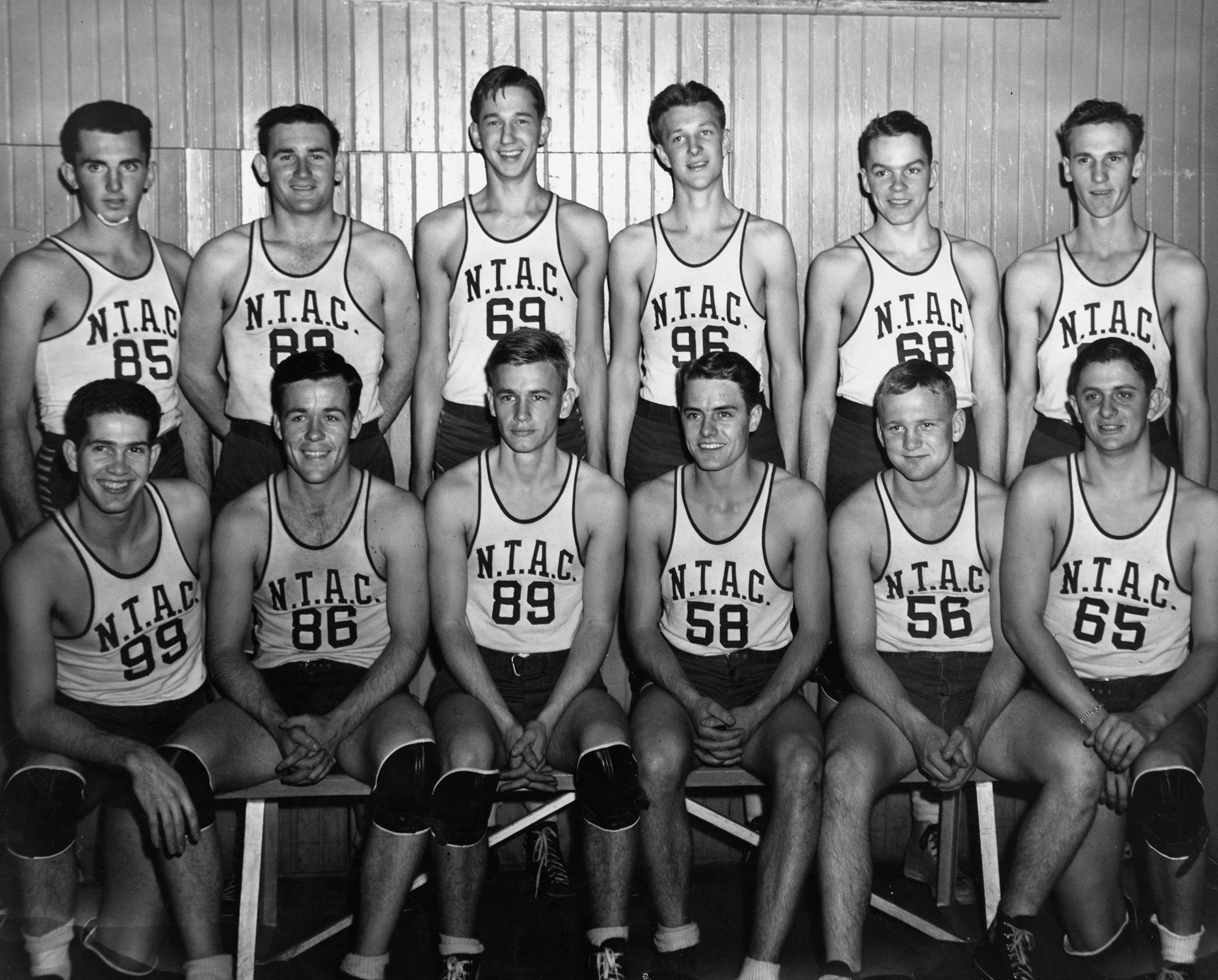 North Texas Agricultural College basketball team; from left (front row): Clarence McGowan, Bobby Doyle, [?] Froeba, Earl Bilyeu, Frank Brooks, Sam Weatherford; (back row): C.P. Kegans, James Batchelor, Marlin Roberts, [?] Hathaway, [?] Bearden; not pictured Bill Treuting.